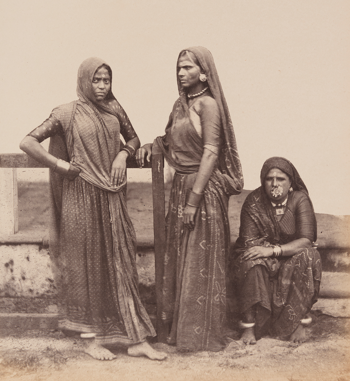 Title: Lowana Women Alternative Title: [Lohana Women] Creator: Johnson, William Date: ca. 1855-1862 Part Of: Photographs of Western India Series: Photographs of Western India. Volume I. Costumes and Characters. Place: India Physical Description: 1 photographic print: albumen; 26 x 20 cm on 42 x 35 cm mount File: vault_ag2002_1407x_1_013_lowana_opt.jpg Rights: Please cite Southern Methodist University, Central University Libraries, DeGolyer Library when using this image file. A high-quality version of this file may be obtained for a fee by contacting . For more information, see: View Europe, India, and Asia: Photographs, Manuscripts, and Imprints